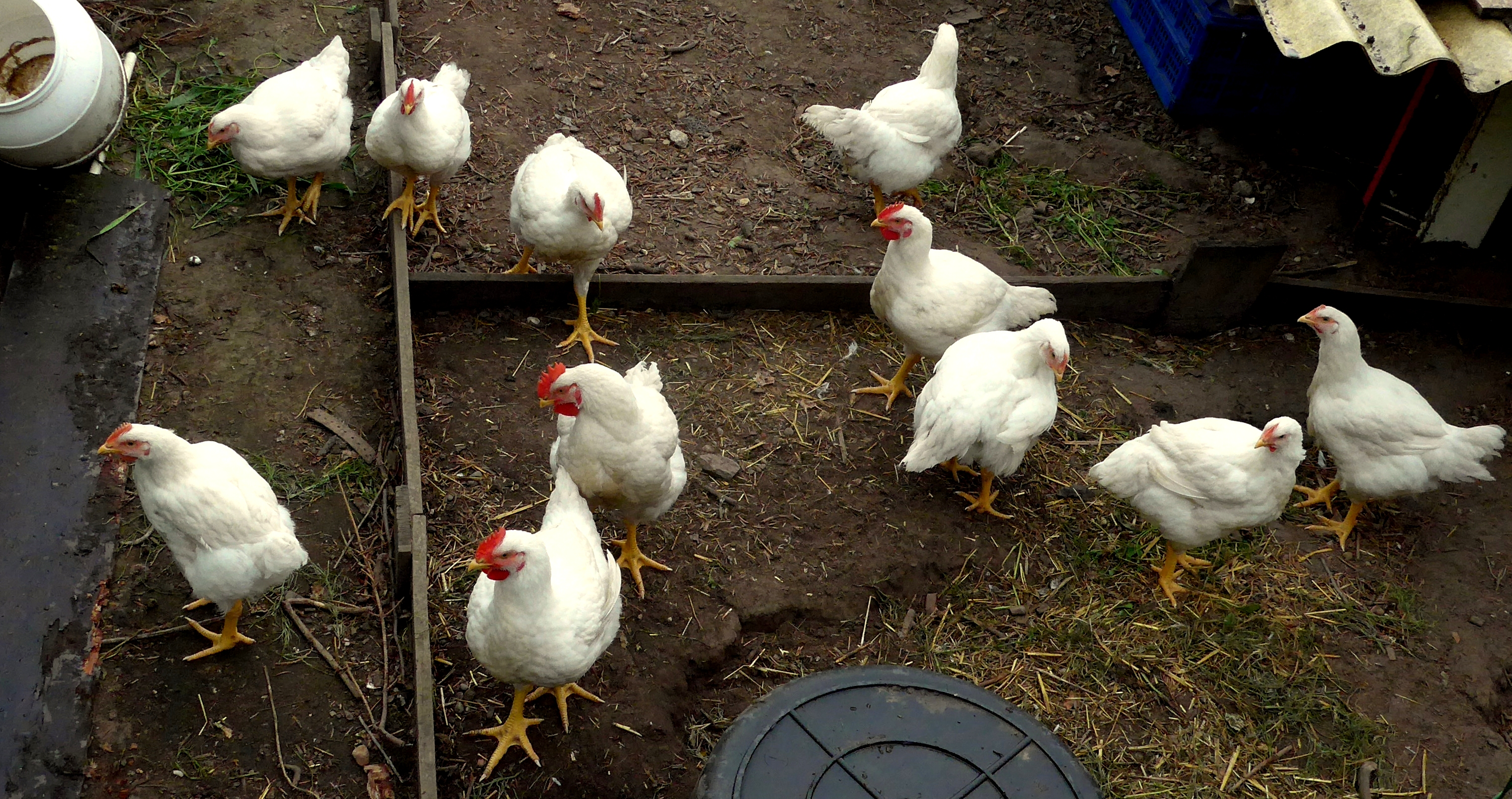 Ross breed, broilers 8 weeks, mature for slaughtering